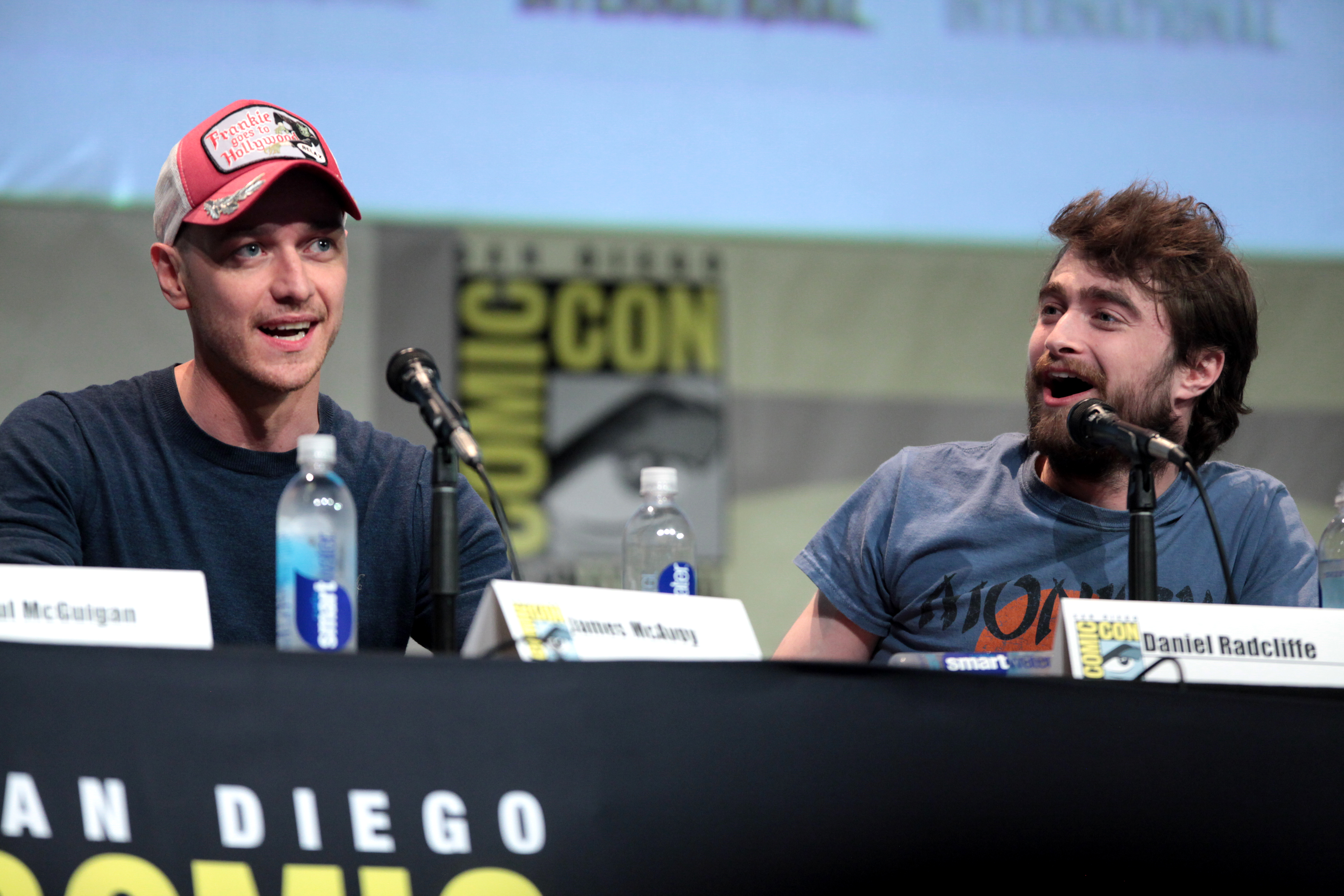 James McAvoy and Daniel Radcliffe speaking at the 2015 San Diego Comic Con International, for "Victor Frankenstein", at the San Diego Convention Center in San Diego, California.